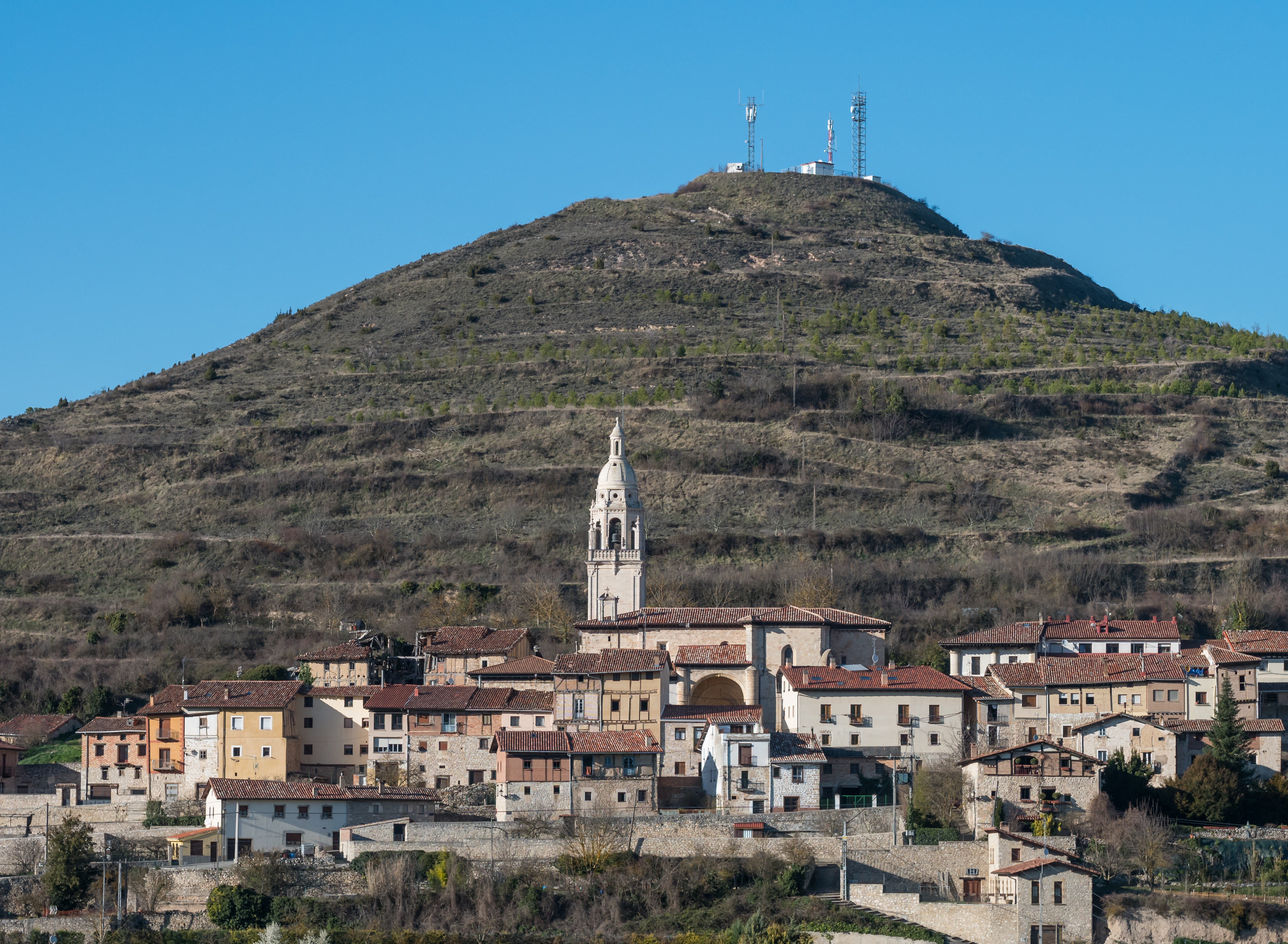 Treviño in Treviño County, Spain